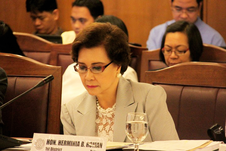 Congresswoman Herminia B. Roman at work at the House of Representatives